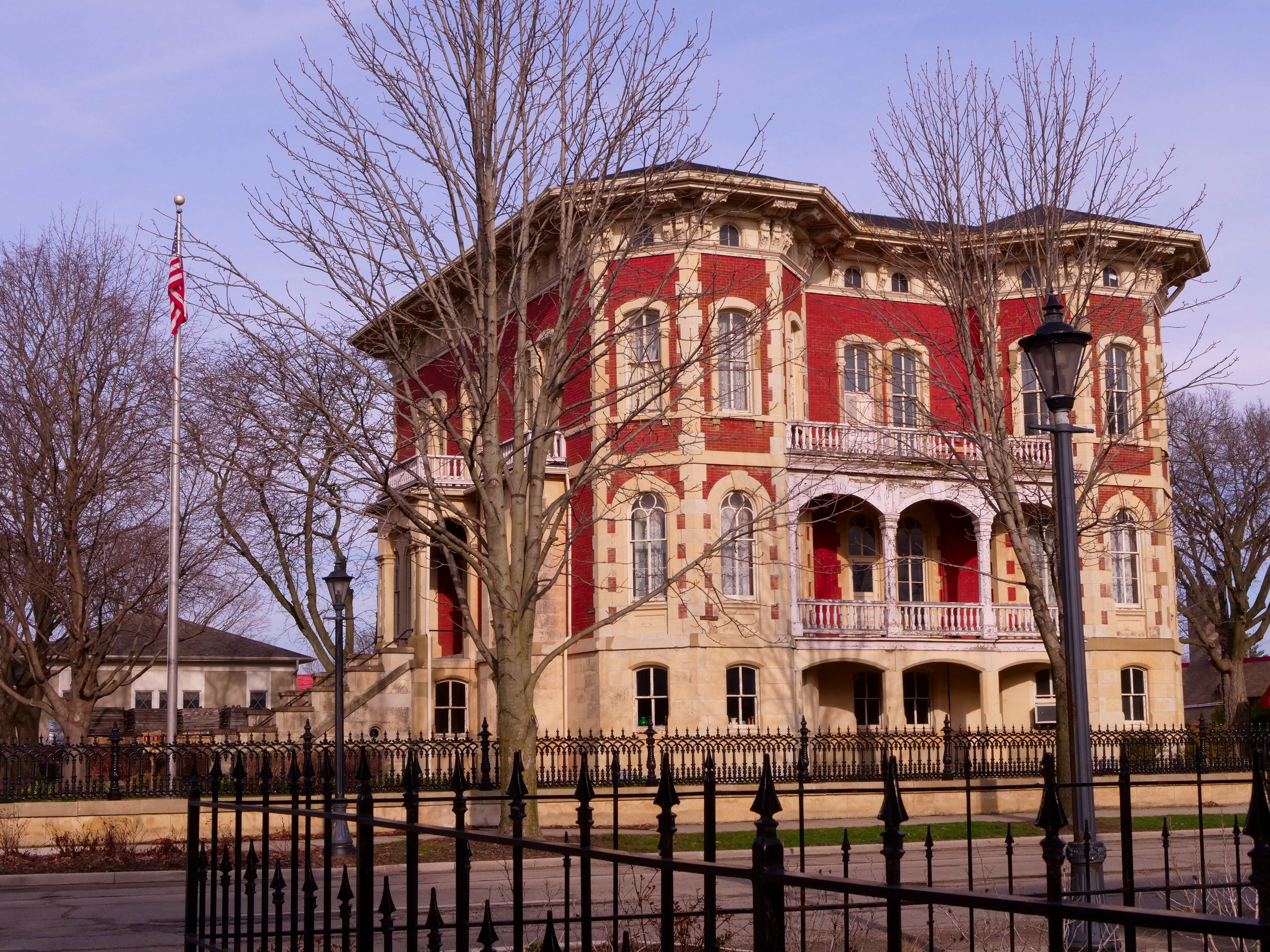 William Reddick Mansion is one of the largest pre-Civil War homes in the state of Illinois. This museum is part of the Washington Park Historic District in Ottawa, Illinois. Constructed by 1858, the first Lincoln Douglas debates was viewed by spectators from the mansion's galleries.